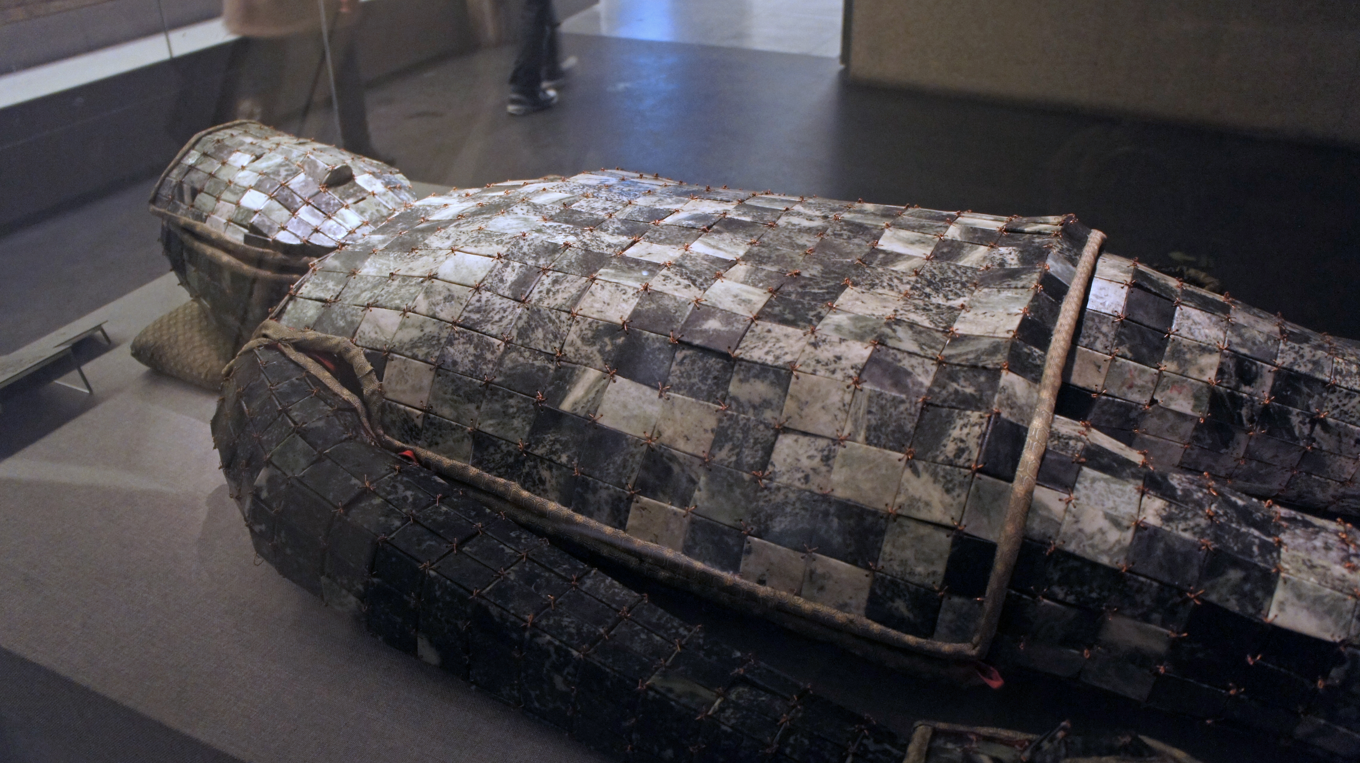 Jade burial suit dated from 40 BC, excavated from the Xishan Tomb 1 (僖山一号墓) of Prince of Liang Liu Sui (刘遂) at Yongcheng, Henan. See also 2nd and 3rd picture